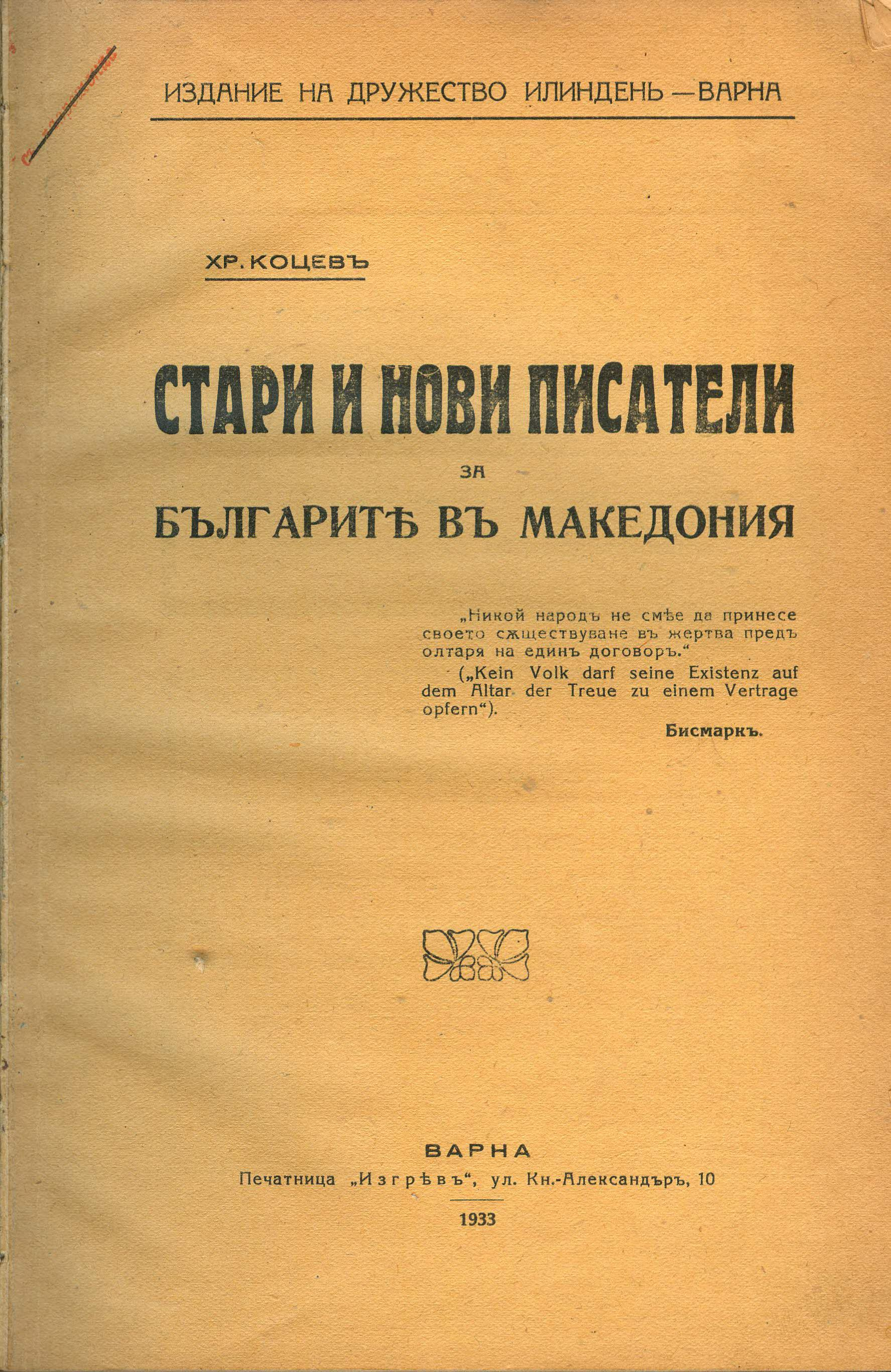 Hristo Popkotsev 1933 book